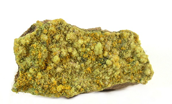 Bayleyite Locality: Ambrosia Lake area, Grants District, McKinley County, New Mexico, USA (Locality at ) Size: miniature, 4.6 x 2.4 x 1.6 cm Bayleyite A large and rich specimen of this rare magnesium and uranium carbonate species, hard to come by! In fact, this is the only one I have ever had.